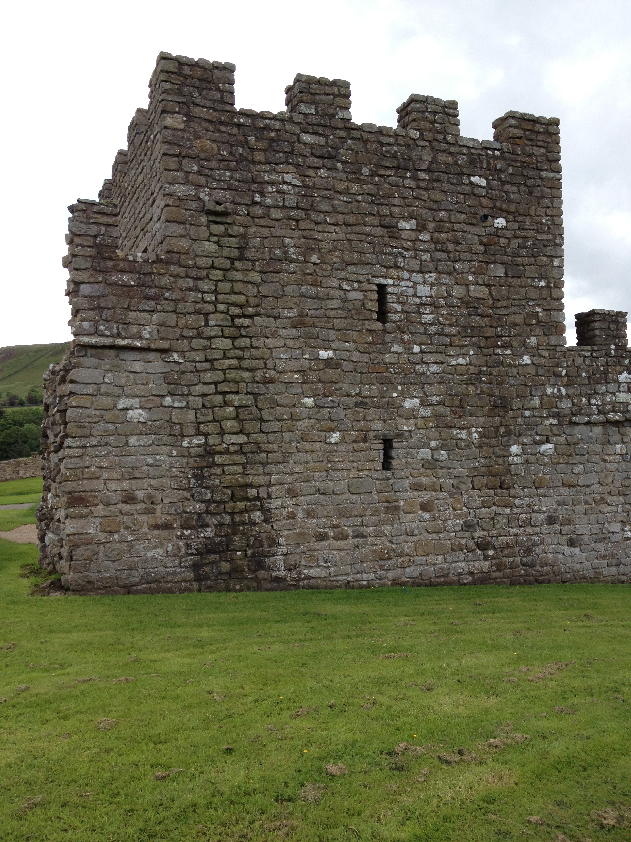 Closeup of the Reconstruction Turret at Vindolanda (from 'Hadrian's Wall North')